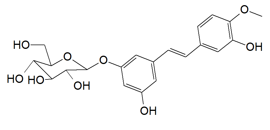 Chemical structure of rhaponticin